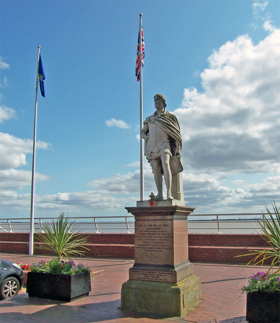 Statue of Sir William-de-la-Pole This statue is by W.D.Keyworth, 1870 (William David Keyworth ?). The inscription reads: SIR WILLIAM-DE-LA-POLE KNIGHT-BANNERET FIRST MAYOR OF HULL, A.D. 1332-1335. AN EMINENT AND MUNIFICENT MERCHANT. HIS SOVEREIGN’S FRIEND. THIS TOWNS BENEFACTOR. LORD OF MYTON AND HOLDERNESS. BARON OF THE EXCHEQUER. FONDER OF THE CHARTER-HOUSE, HULL. ANCESTOR OF THE NOBLE FAMILY OF SUFFOLK. HE DIED 21 APRIL, 1366.